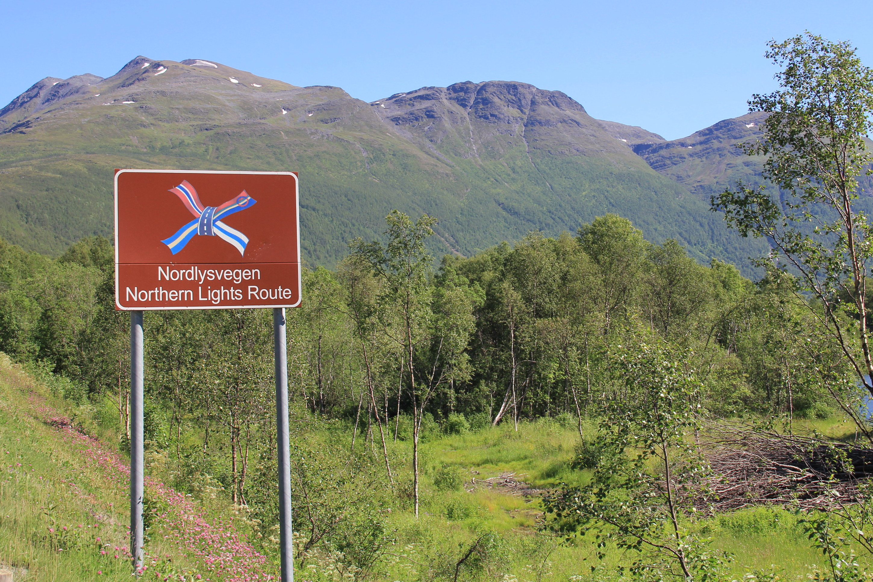 Northern Lights Route sign and scenery in Nordkjosbotn, Norway.